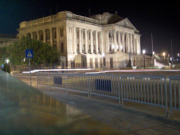 plese mention my name if you want to use it again.